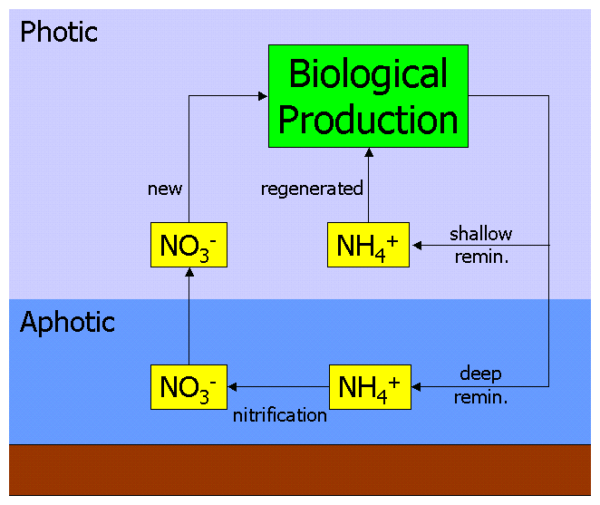 This diagram shows the origins of the terms new and regenerated production. New production is that derived from nitrate (NO3-), while regenerated production is derived from ammonium (NH4+). Since nitrate is believed to only be produced at depth (via nitrification), knowing the ratio between new and regenerated production (the so-called f-ratio) allows one to infer the flux of organic nitrogen from the photic zone to the aphotic zone.